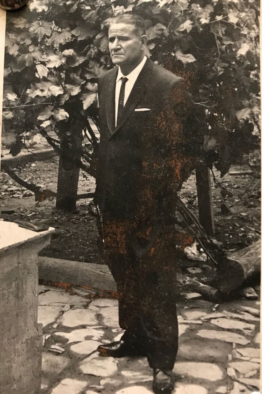 Diógenes Lara standing in an open area.